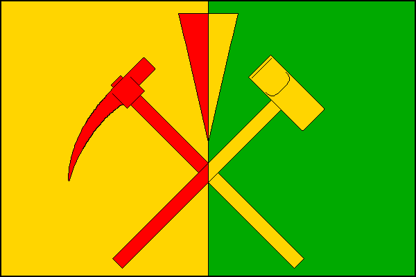 Municipal flag of Kamenné Zboží , District Nymburk, Czech Republic